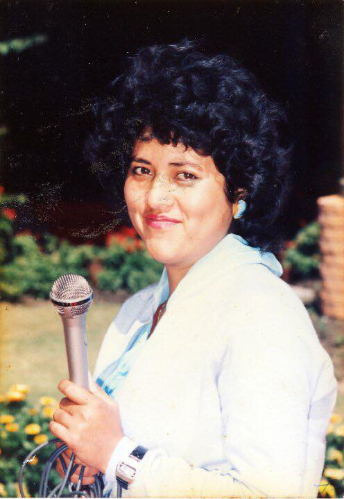 At an event